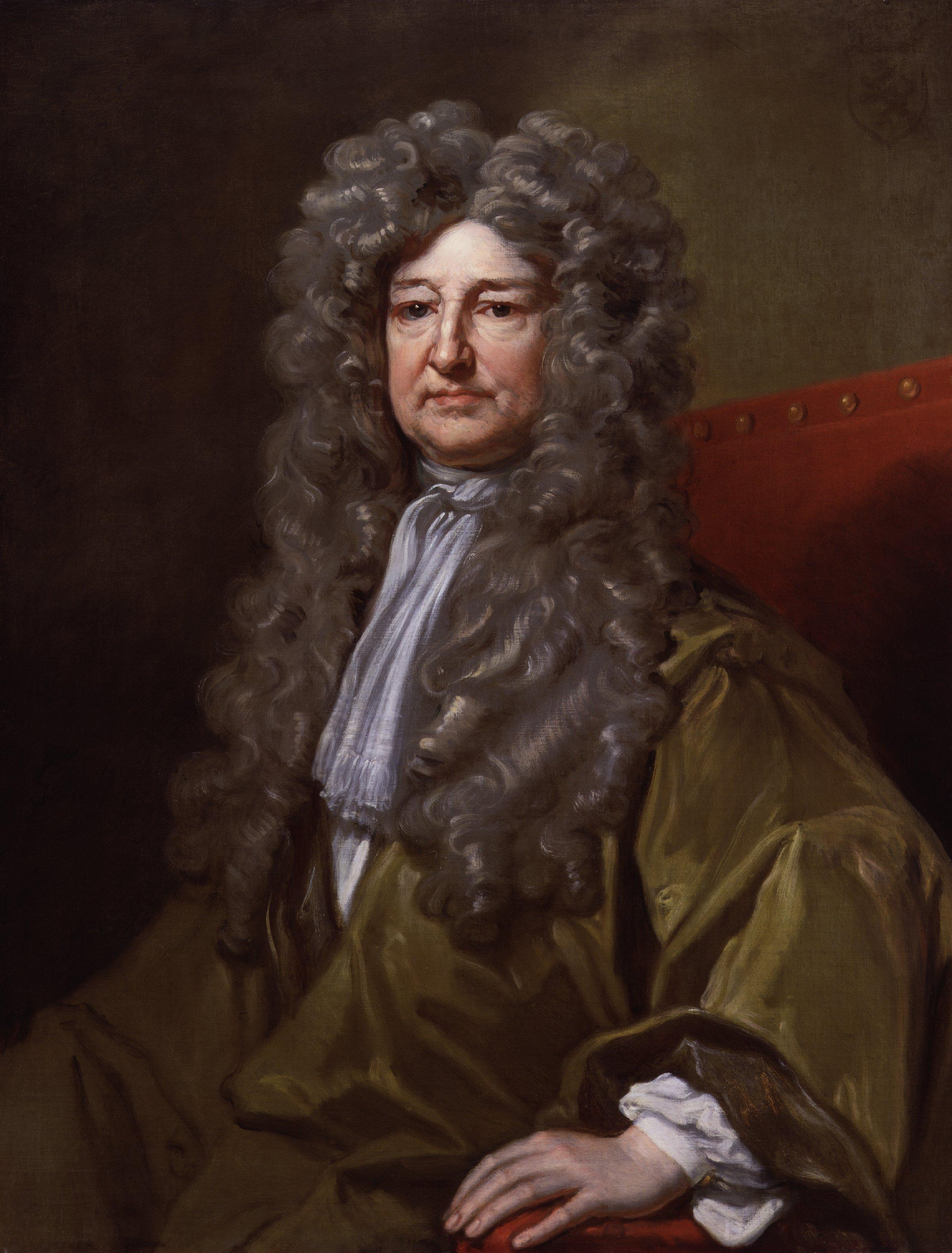 John Vaughan, 3rd Earl of Carbery, by Sir Godfrey Kneller, Bt (died 1723), given to the National Portrait Gallery, London in 1945. All images in this batch have been confirmed as author died before 1939 according to the official death date listed by the NPG.